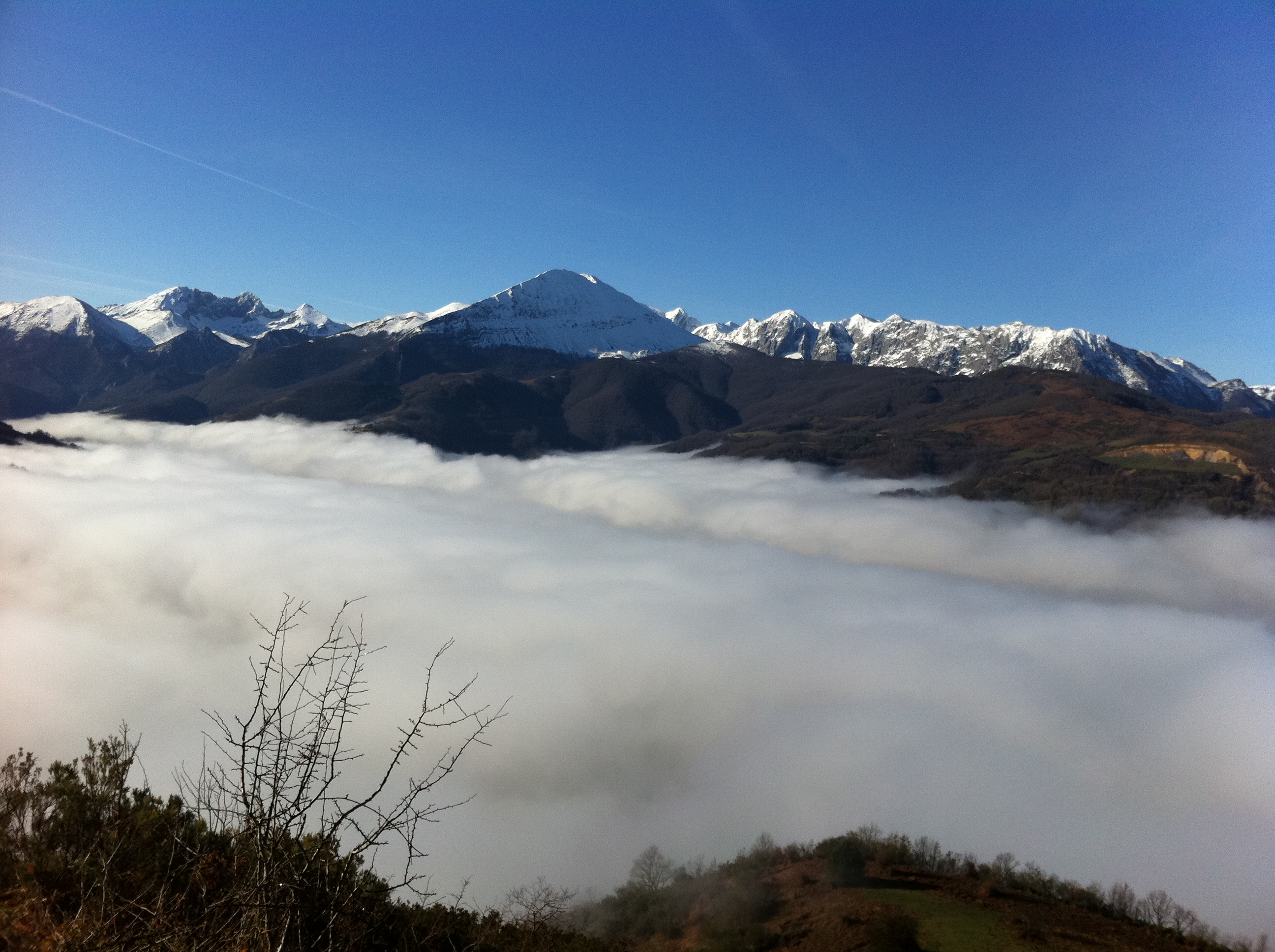 Parque Natural Las Ubiñas - La Mesa. Quirós. Asturias